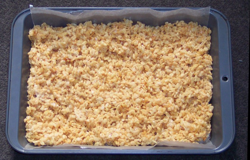 Rice Krispie treats in a pan lined with wax paper.